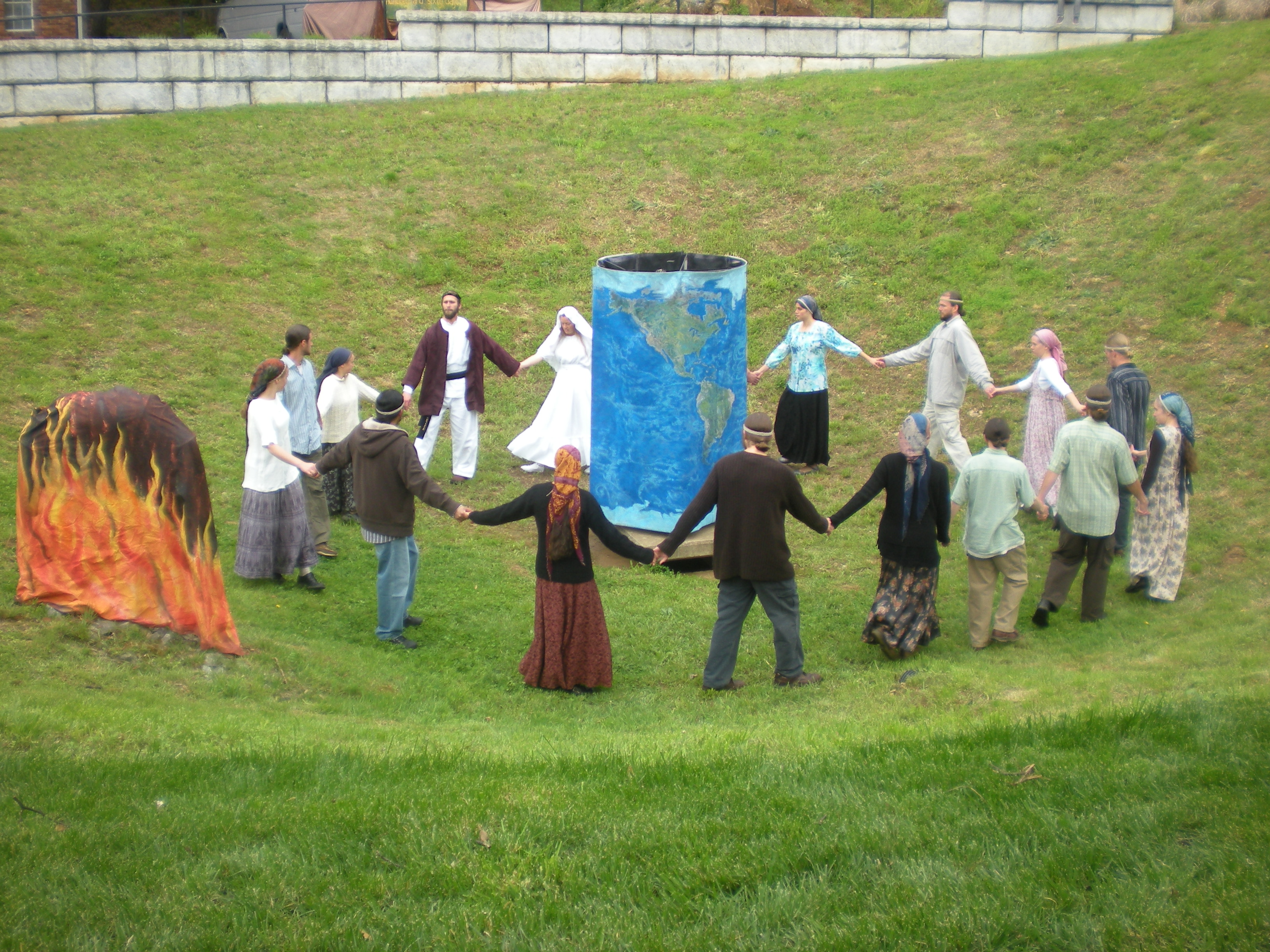 During a wedding, Twelve Tribes members perform a ceremonial dance representing the battle of Armageddon